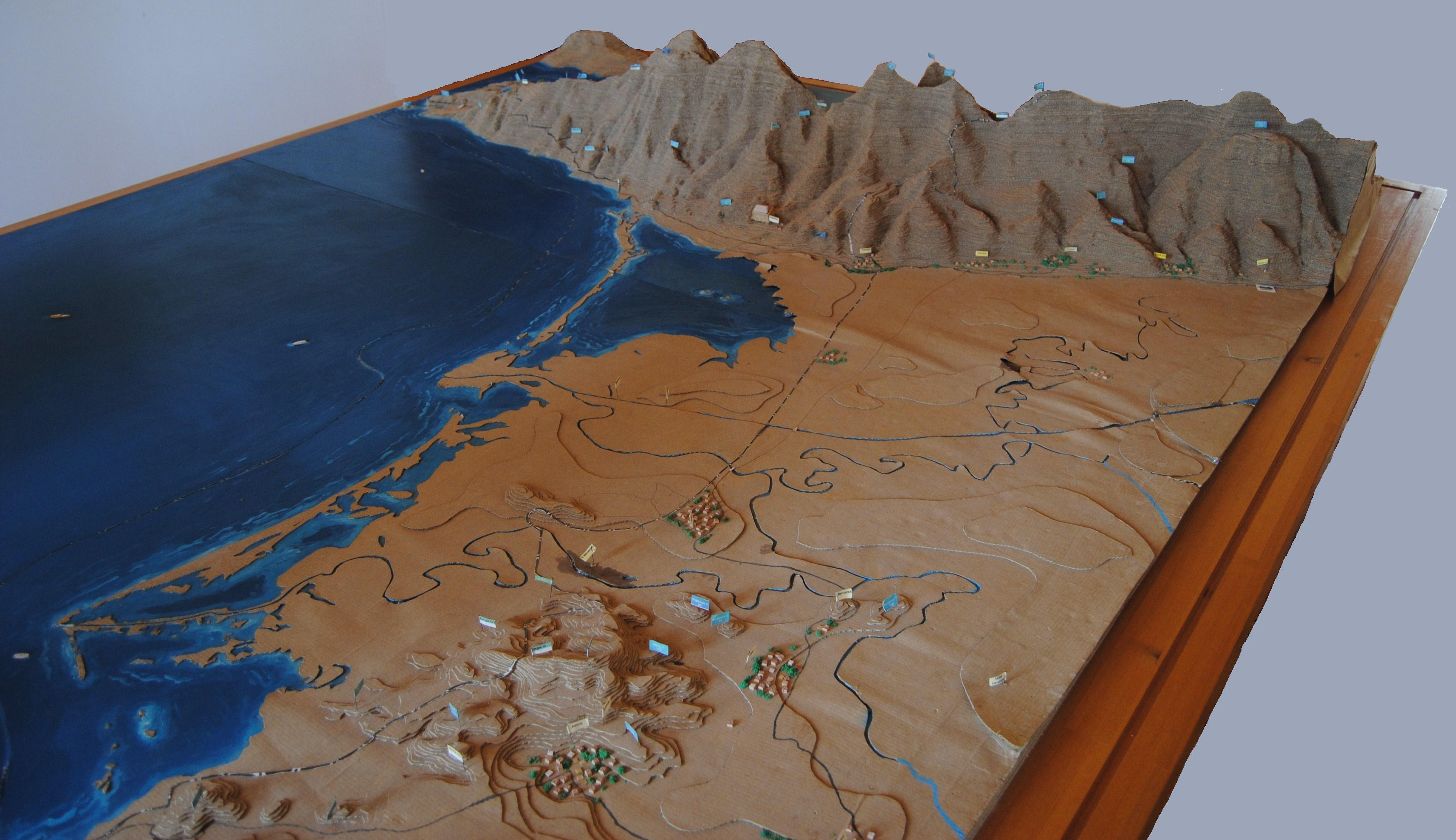 Picture of museum scale of Dilek Yarimadasi area